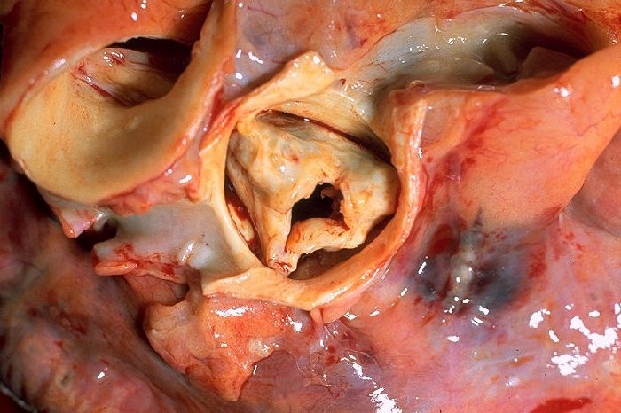 Gross pathology of rheumatic heart disease: aortic stenosis. Aorta has been removed to show thickened, fused aortic valve leaflets and opened coronary arteries from above. Autopsy.